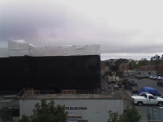 Image of the construction of the Richmond Medical Center (Richmond, California)